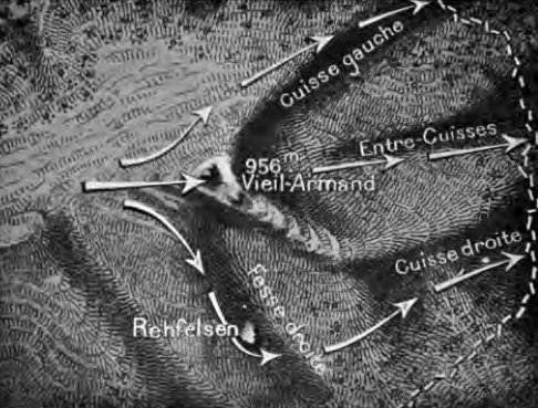 Diagram of the attack of the French 152nd Regiment,which captured the Rehfelsen, crossed the peak and the spurs of Vieil-Armand, advanced to the lower slopes, surrounded the German troops between the spurs and took 400 prisoners.